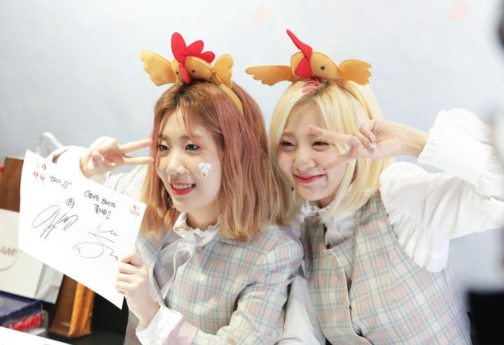 Bolbbalgan4 at a fansinging on March 6, 2018